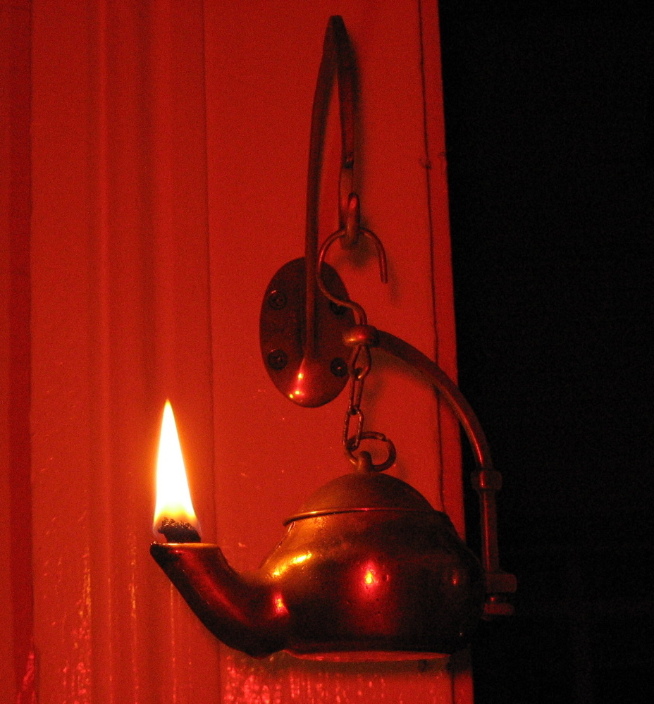 Common factory produced brass olive oil lamp from Italy, c. late 19th century to c. 1900; photo illuminated with light from lamp.